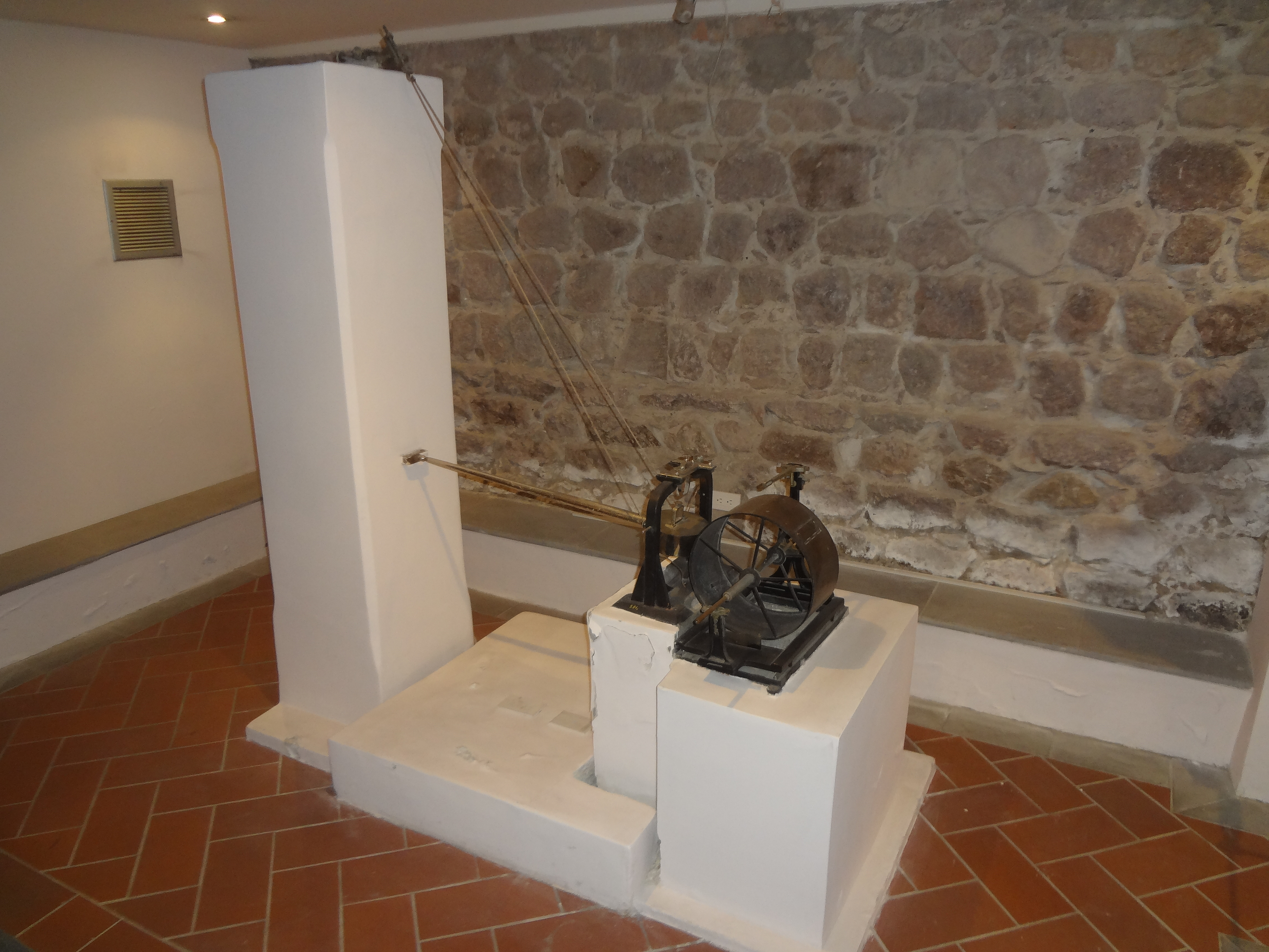 Astronomical Museum at the Quito Astronomical Observatory, antique equipment for measuring earthquakes